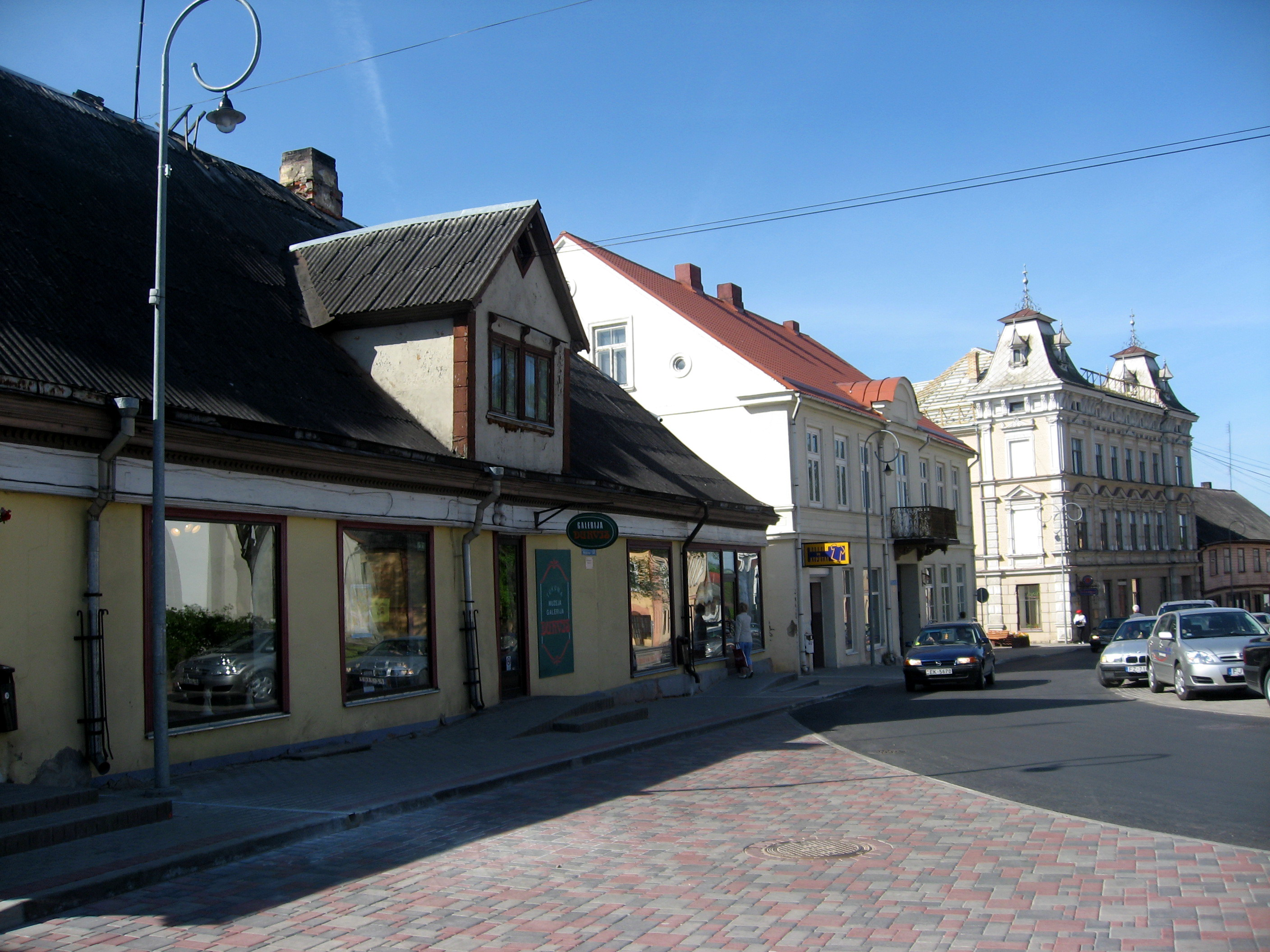 Lielā street (view from Brīvības square)